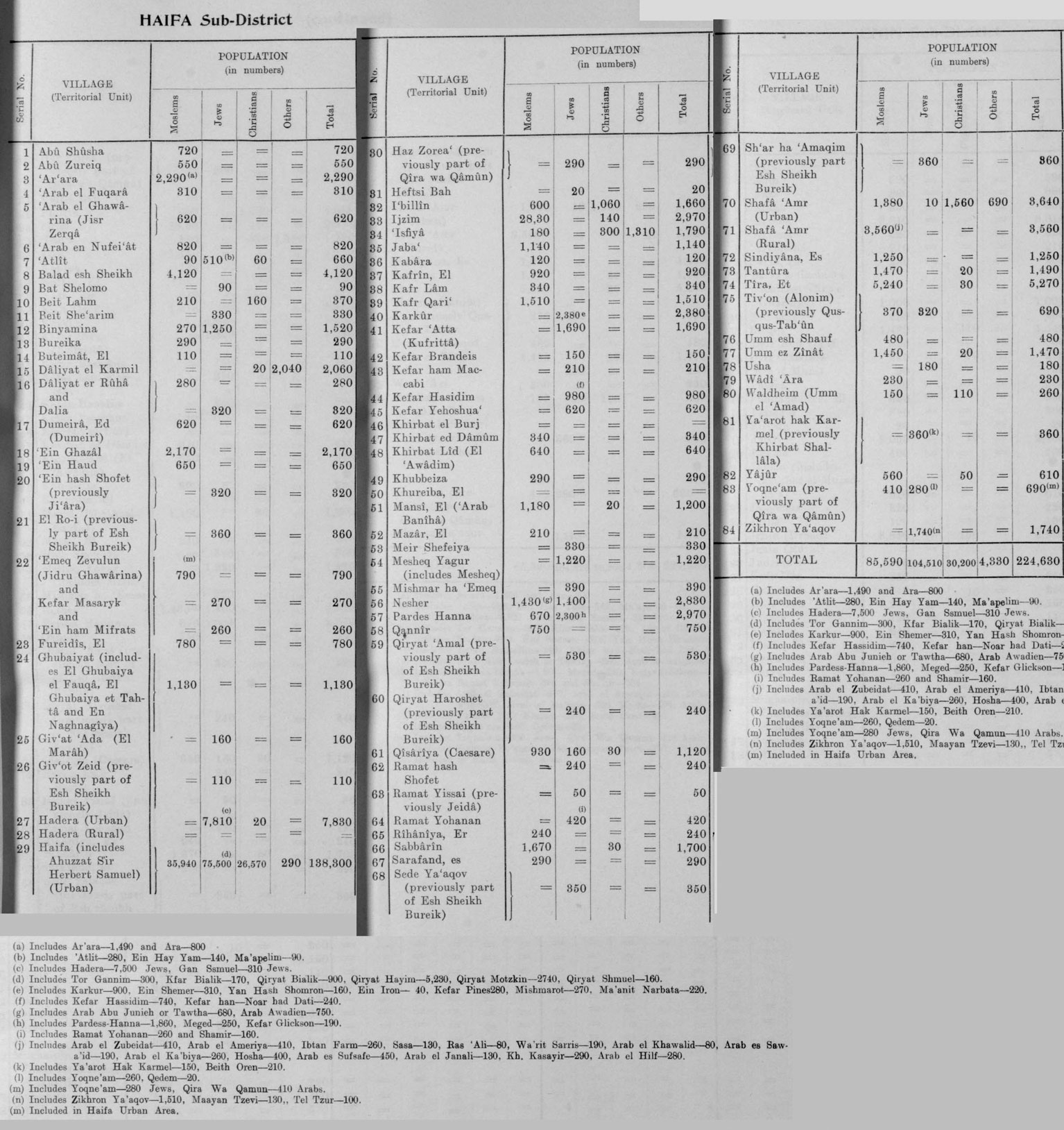 1945 Palestine Mandate Village Statistics